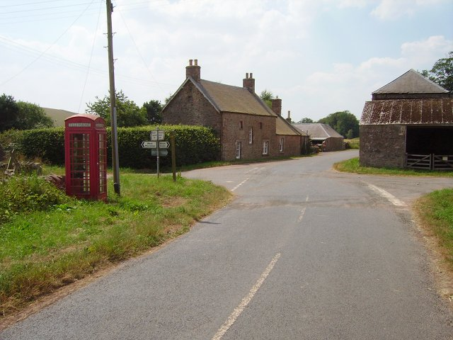 Legerwood. Farm and crossroads with condemned phone box.